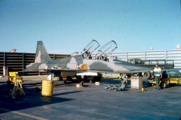 A U.S. Air Force Northrop F-5B Freedom Fighter (s/n 65-13074) of the 602th Fighter Squadron at Bien Hoa Air Base, South Vietnam, in 1966. It was part of the project "Skoshi Tiger" to evaluate the F-5. This aircraft was later passed on to the South Vietnamese Air Force (VNAF).